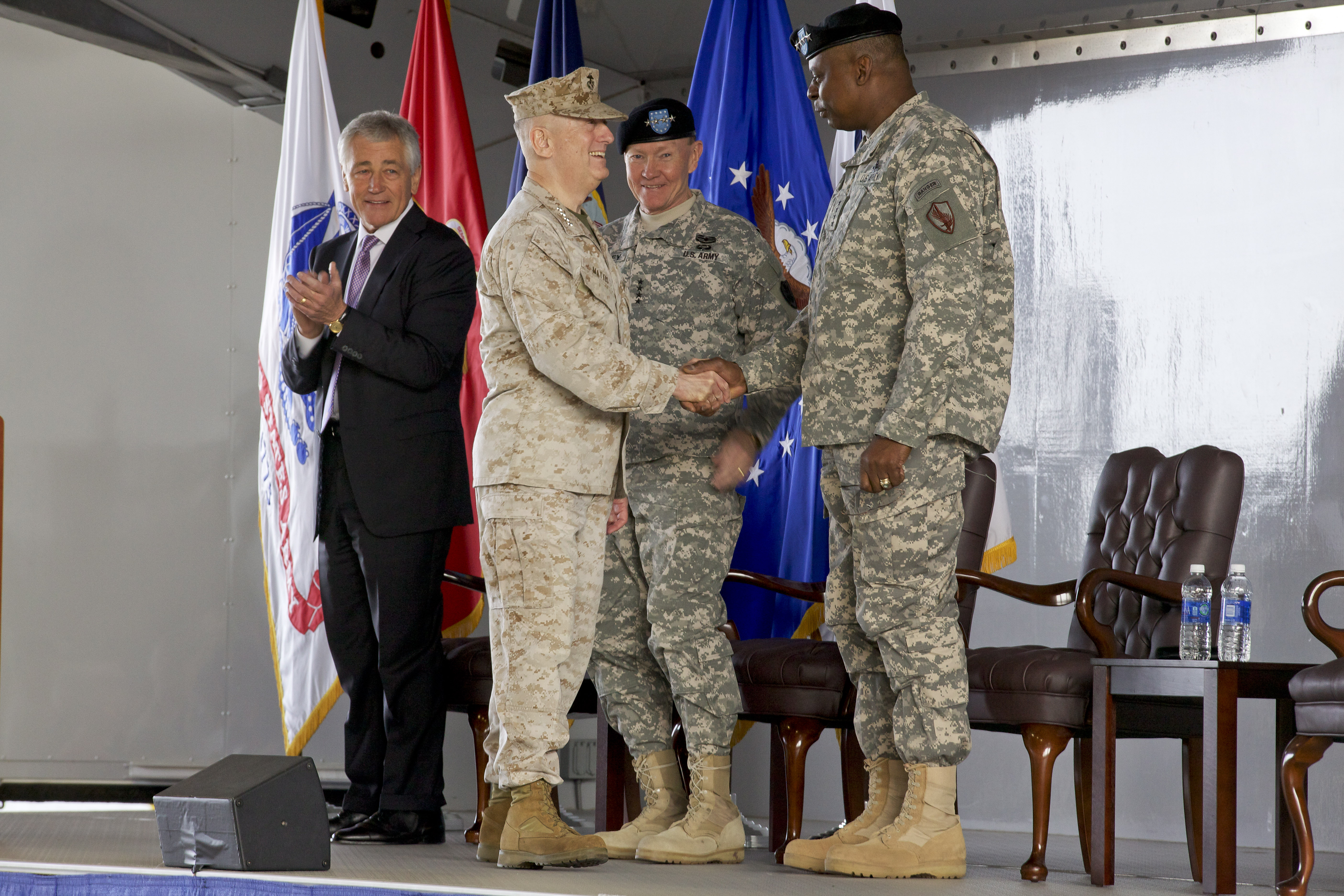 U.S. Marine Corps Gen. James N. Mattis, left foreground, shakes hands with Army Gen. Lloyd J. Austin III as Secretary of Defense Chuck Hagel, left background, and Chairman of the Joint Chiefs of Staff Army Gen. Martin E. Dempsey stand by during the U.S. Central Command (USCENTCOM) change of command ceremony March 22, 2013, at MacDill Air Force Base, Fla. During the event, Austin assumed command of USCENTCOM from Mattis.